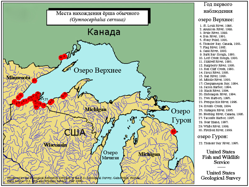 Gymnocephalus cernuus in Canada